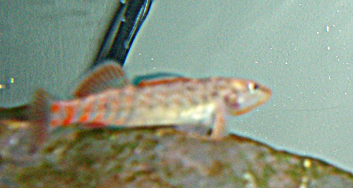 Male Etheostoma caeruleum (rainbow darter) in my aquarium photo taken by User:Terrapin83